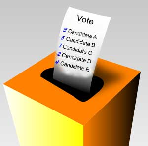 Ballot Box showing preferential voting